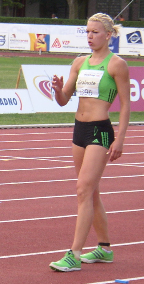 Athlete Aiga Grabuste of Latvia preparing for her first attempt in long jump during women's heptathlon at 5th edition of the TNT - Fortuna Meeting (IAAF World Combined Events Challenge Meeting, Sletiště Stadium, Kladno, Czech Republic, 16 June 2011, 12:03).